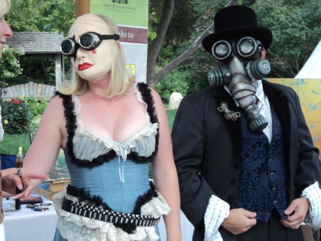 A Victorian steampunk couple at Carnevale 2012 held at the Idaho Botanical Gardens.